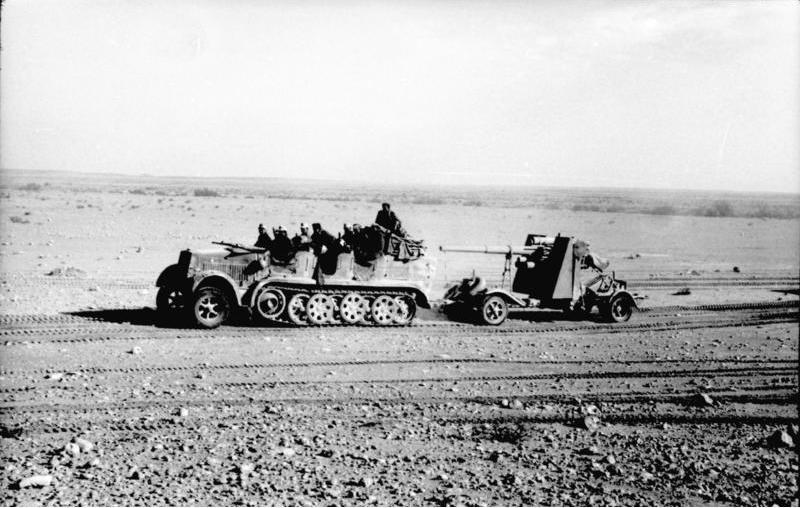 In fact, SdKfz 7